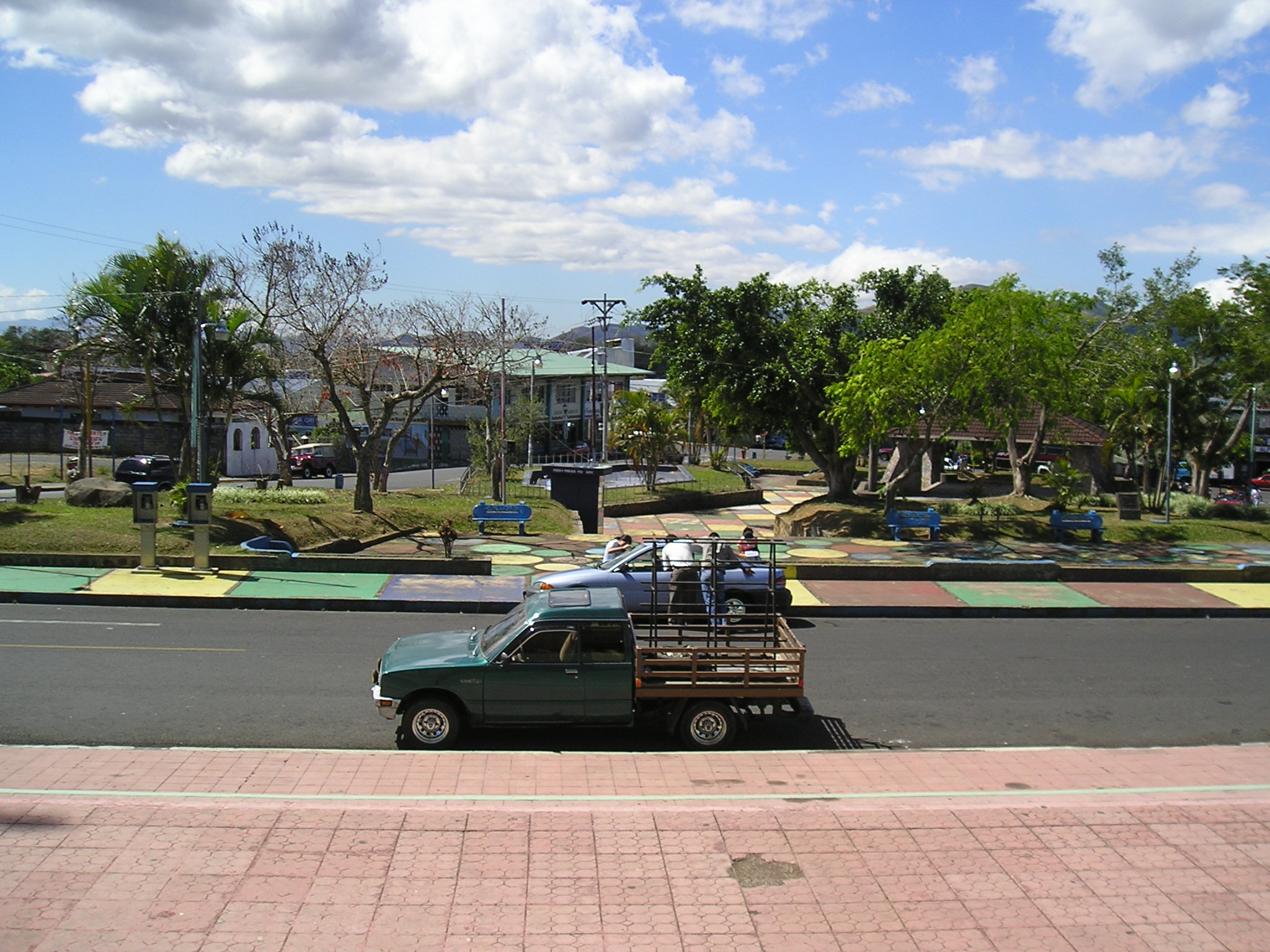 Central Park of the town of Sarchi, Costa Rica